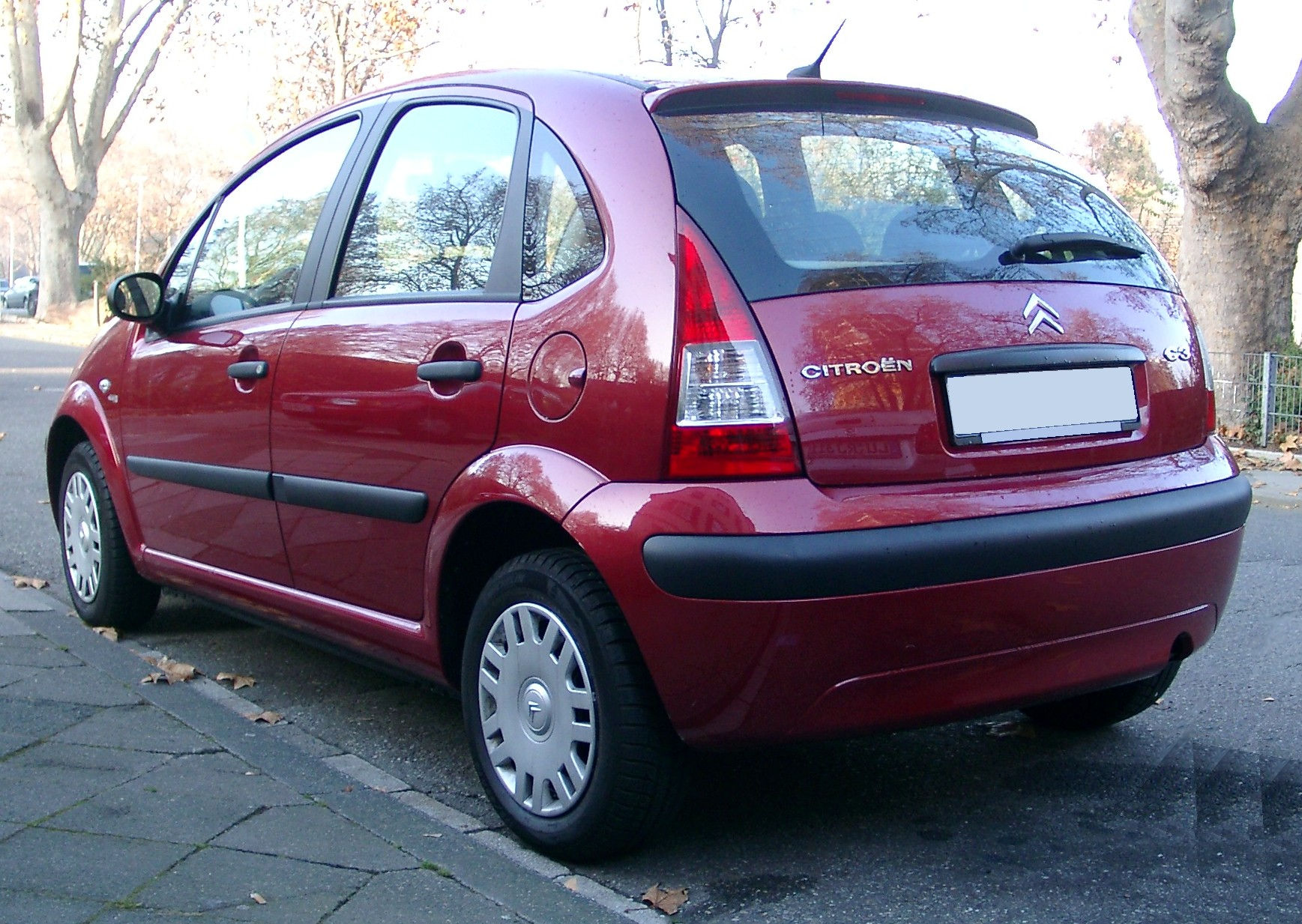 Citroën C3